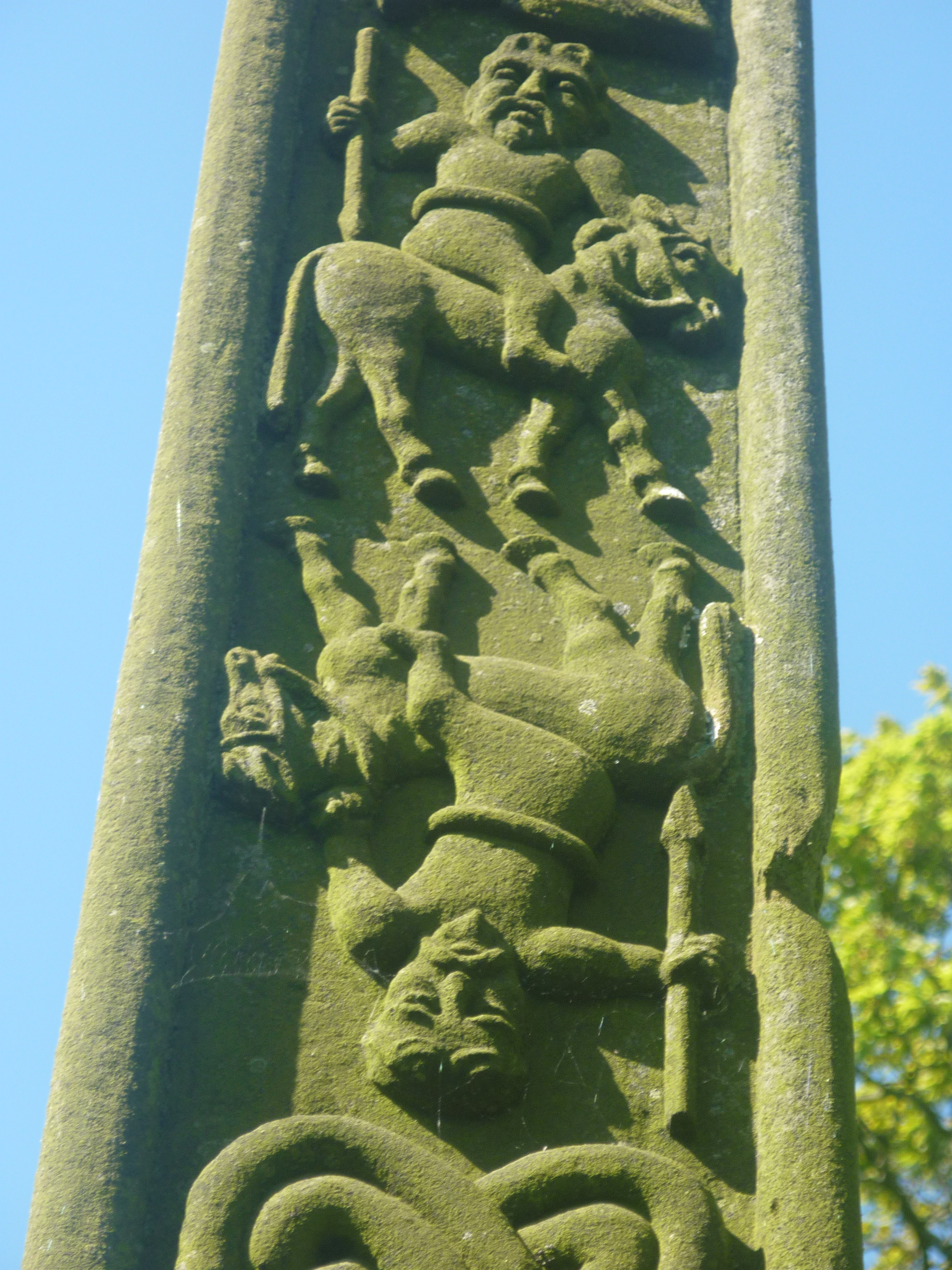 Detail of Replica Gosforth Cross 2